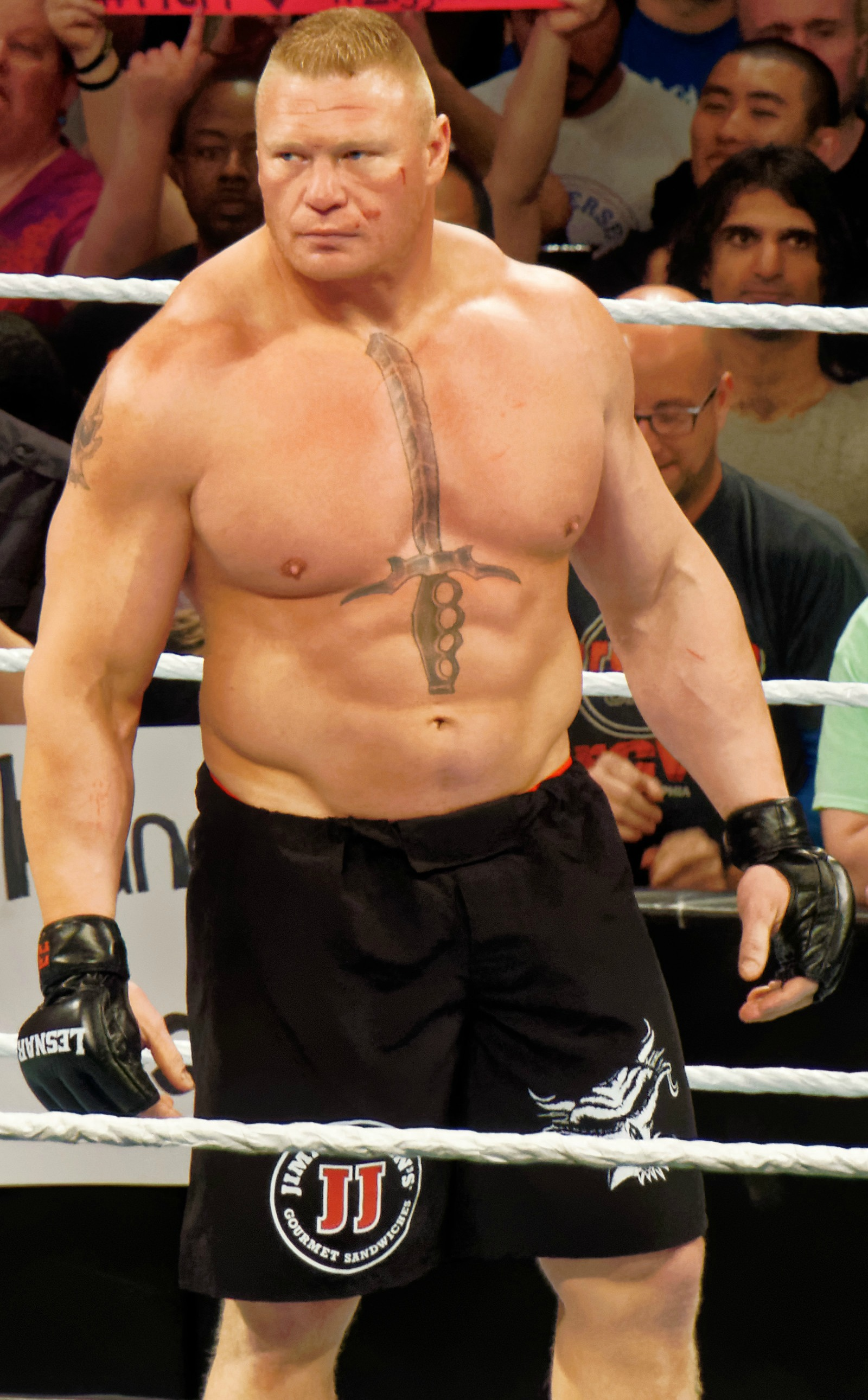 Brock Lesnar in March 2015.